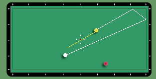 A two-rail kick shot on the castle in Five-pin billiards also known as Italian billiards.